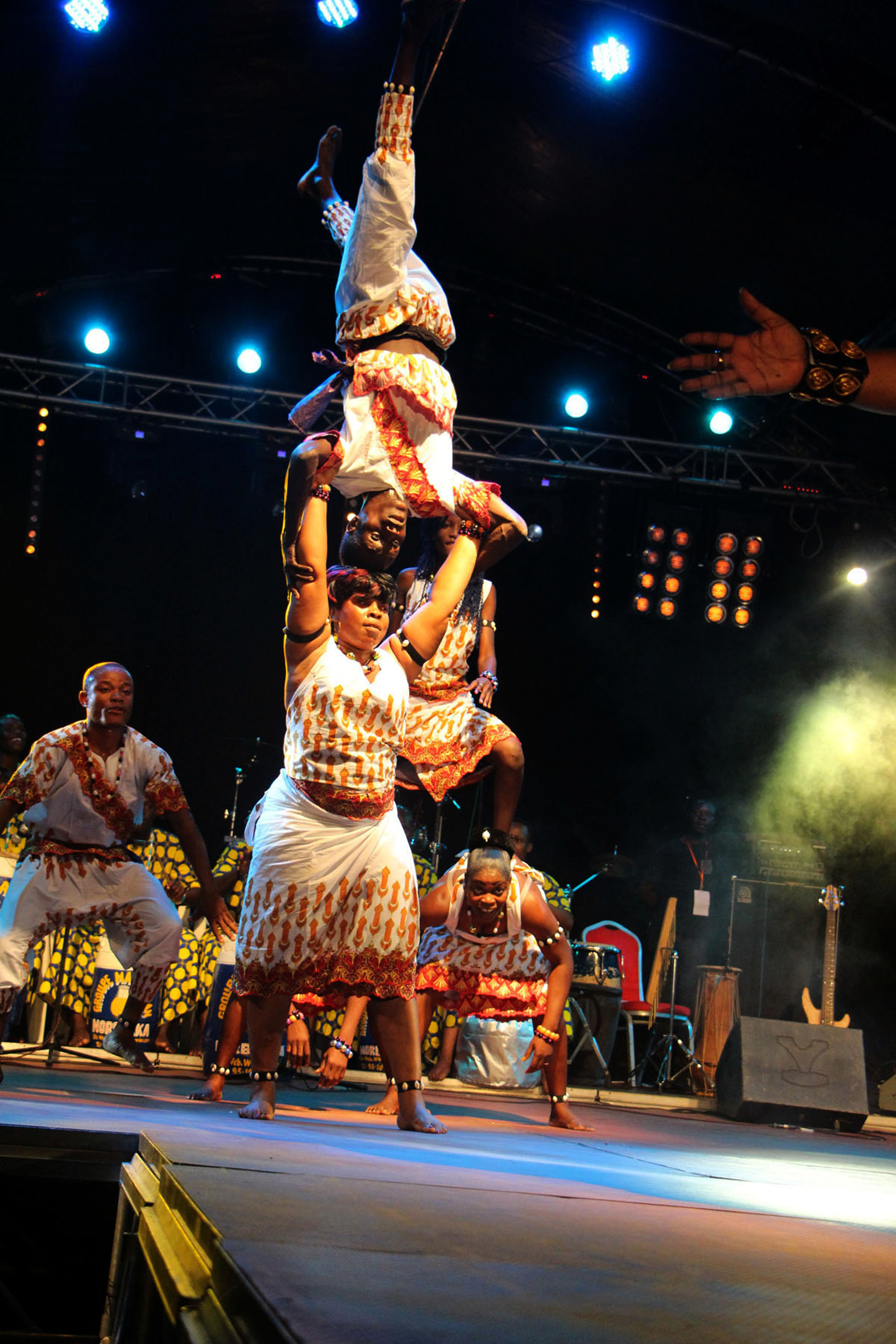 the woman is capable of anything like her man This is an image with the theme "Africa on the Move or Transport" from: Benin